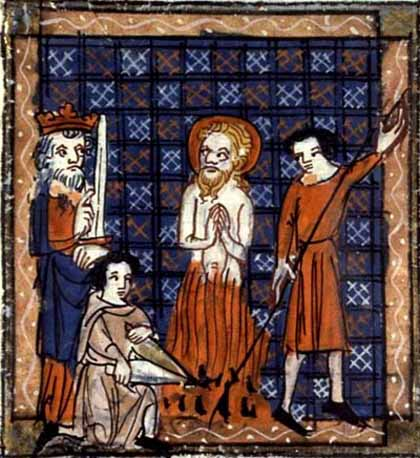 Martyrdom of Saint Barnabas.